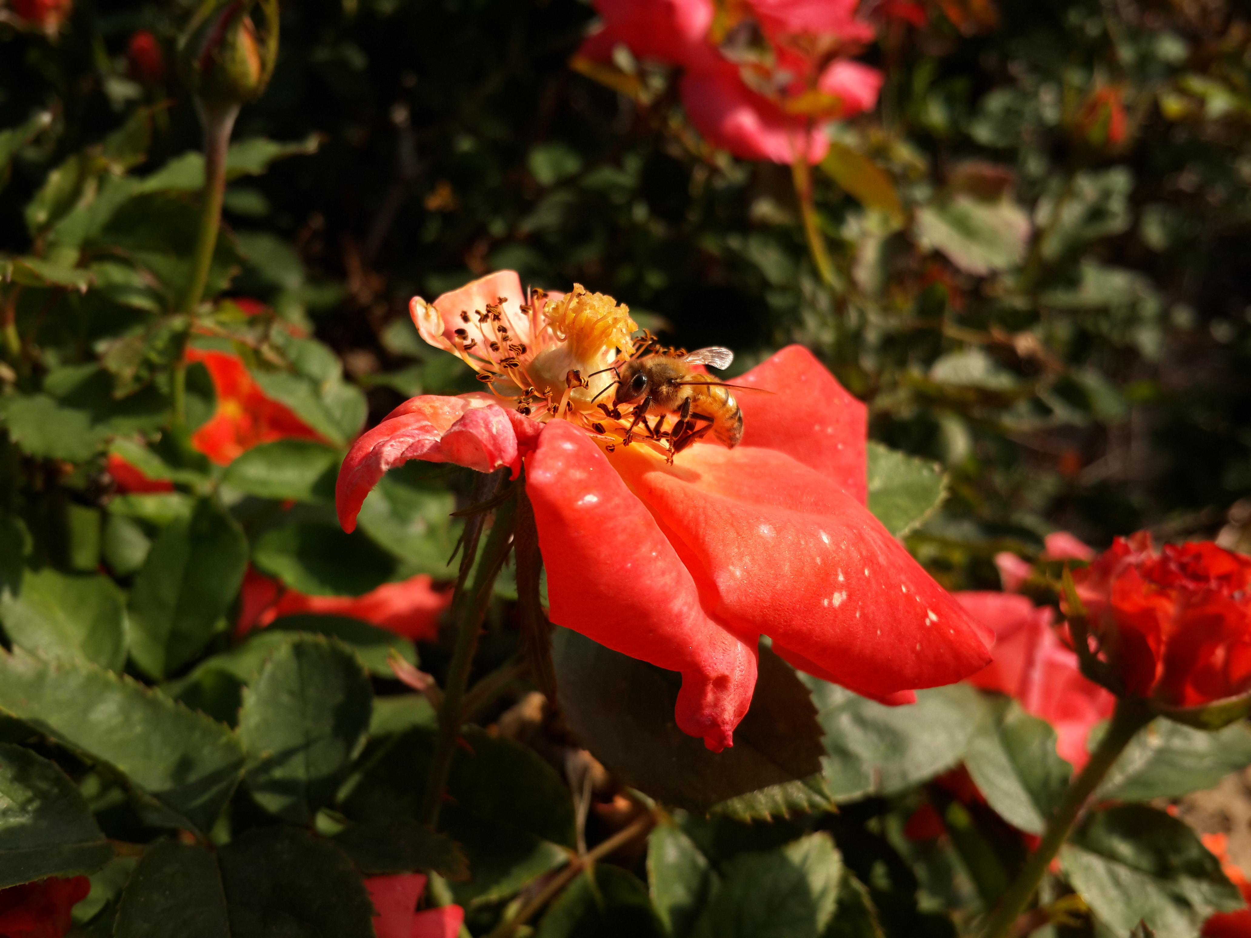 Bee on a flower in israel